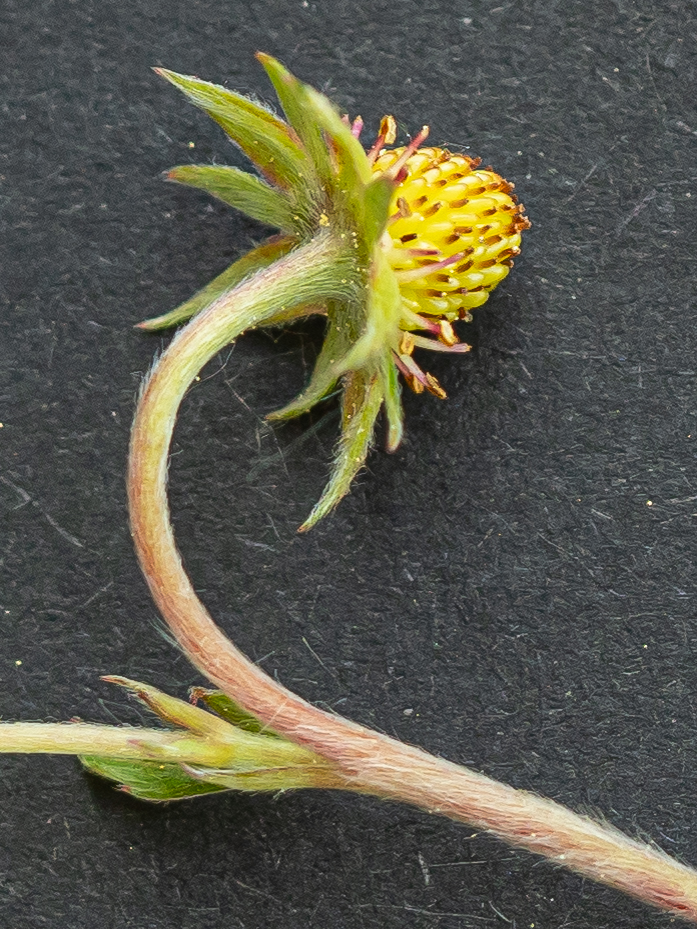 Fragaria vesca: orientation of hairs directed towards the flower